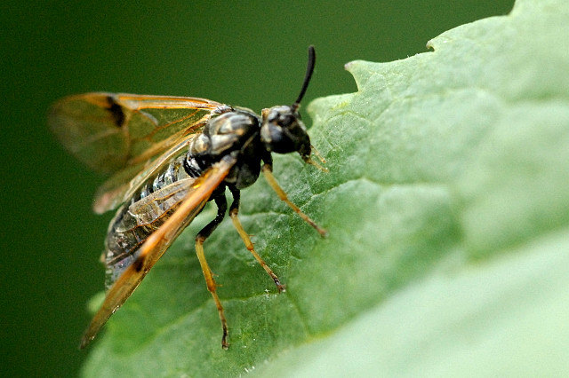 Arge rustica from Commanster, Belgian High Ardennes .